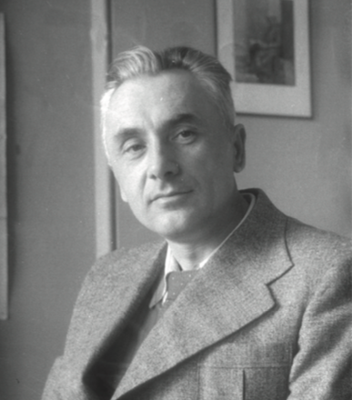 Ю. І. Яновський; м. Київ, 1946 р.